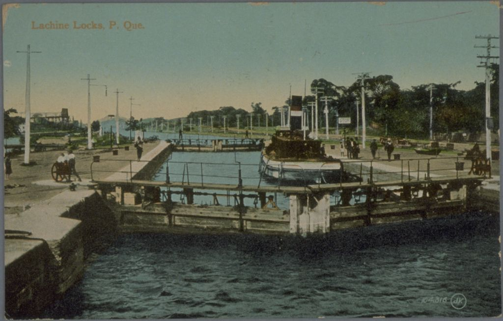 Lachine Locks, P. Que., carte postale, Valentine & Sons' Publishing Co.